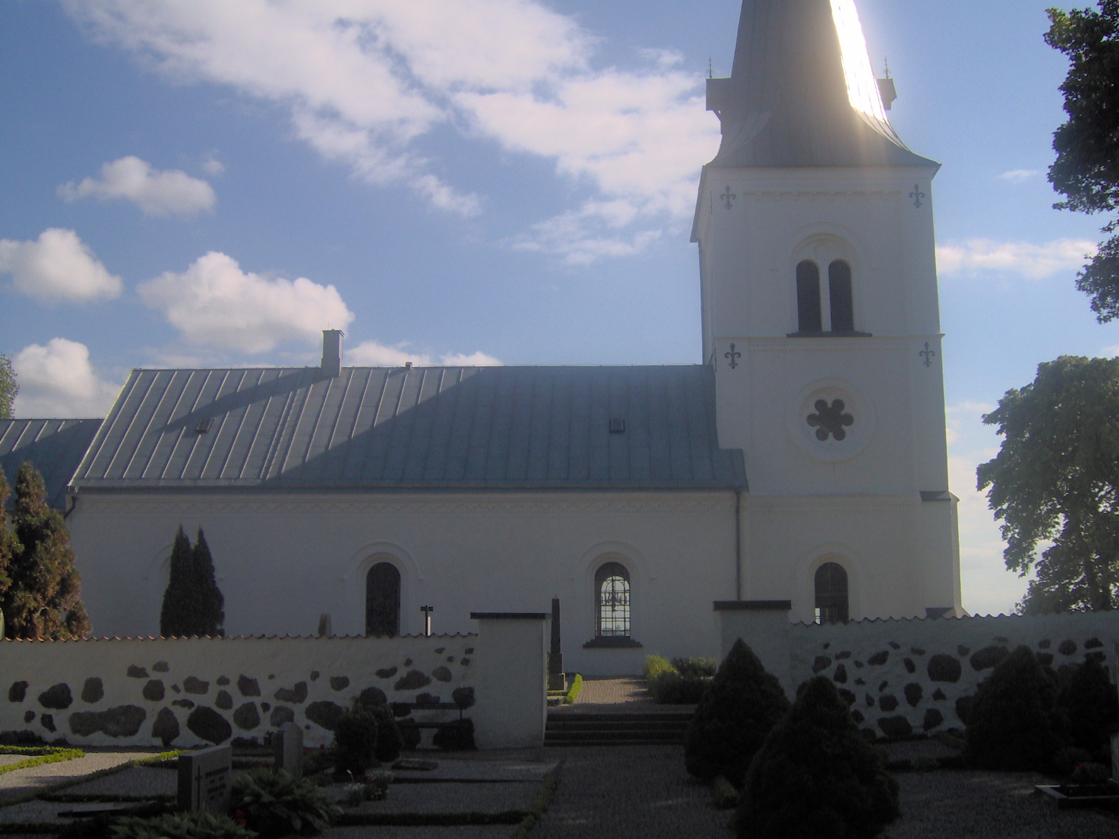 Görslöv church Source: taken by user june 10th 2005